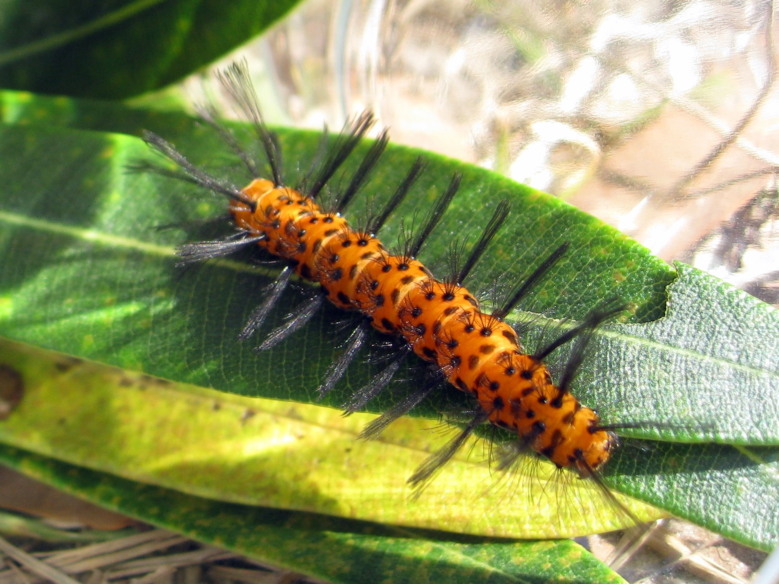 Larvae of the Oleander moth